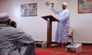 Air Force Chaplain Capt. Walid Habash speaks to Troopers from the Joint Detention Group, above, following a prayer service Friday, Dec. 19. At right, Habash speaks on values prior to the call to prayer. – JTF Guantanamo photos by Army Pfc. Eric Liesse